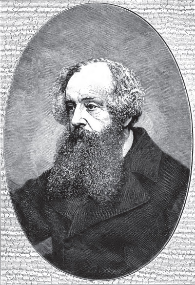 Engraving of Egerton Leigh